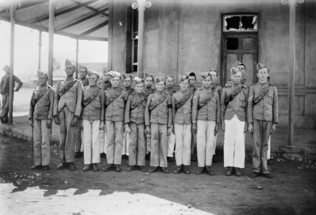 Mafeking Cadet Corps, 1899-1900. Original no longer under copyright. Low-res scanned image taken from with the permission of the webmaster. Category:Scouting images